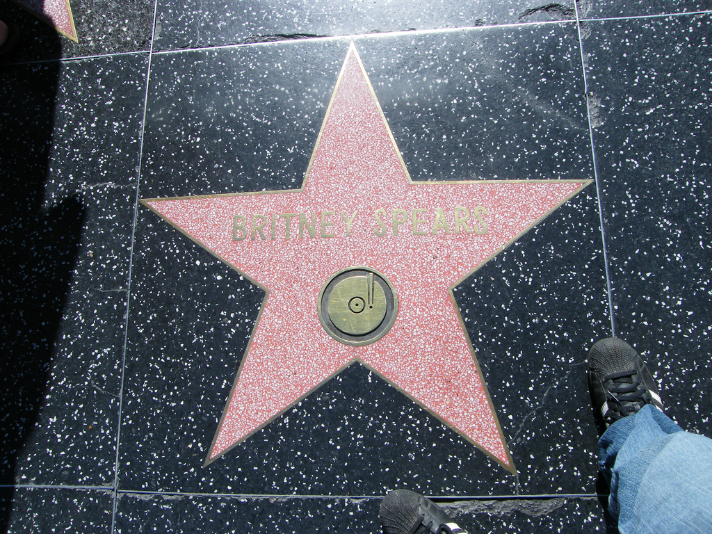 Britney Spears's star on the Hollywood Walk of Fame in Hollywood, Los Angeles, California